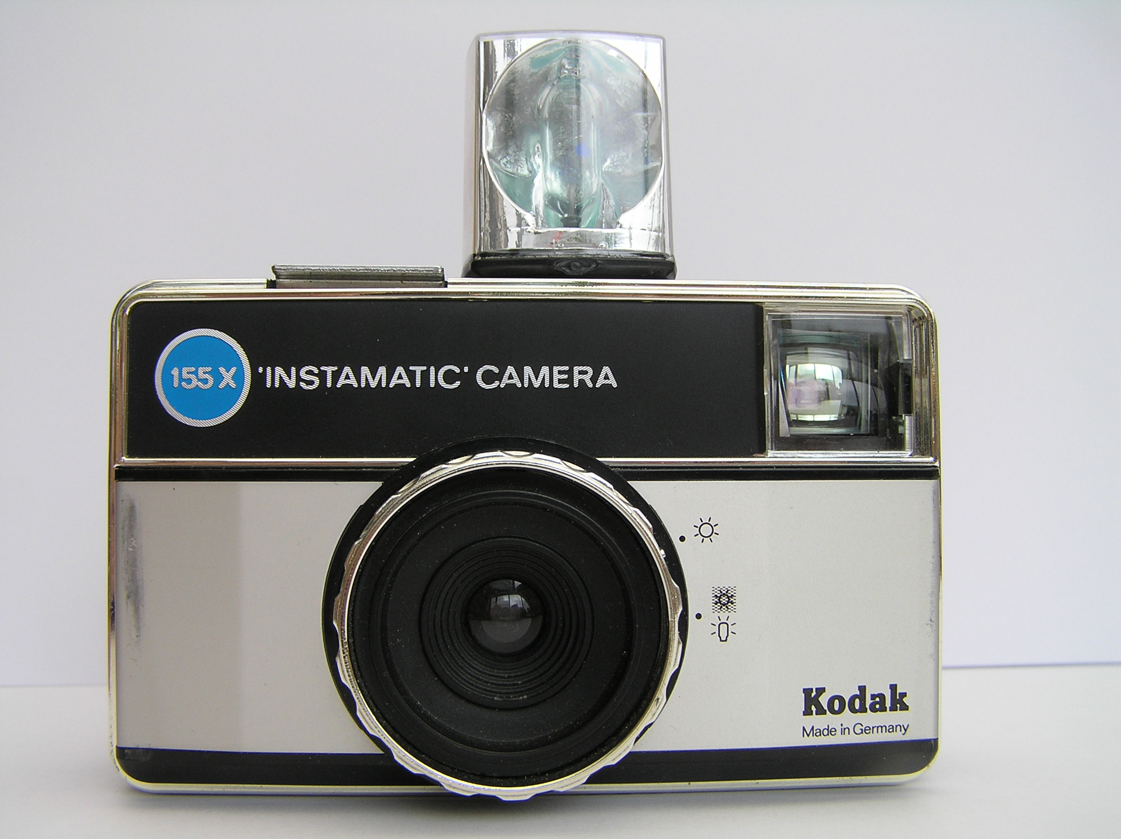 Kodak Instamatic 155X with flashcube